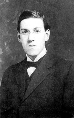 Howard Phillips Lovecraft tirada em 1915.Taken for the Amateur Publishing Association.